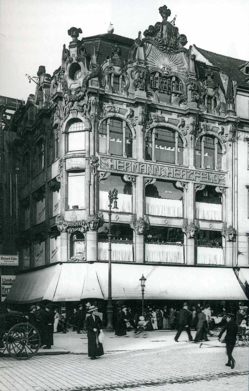 Kaufhaus Herzfeld Dresden